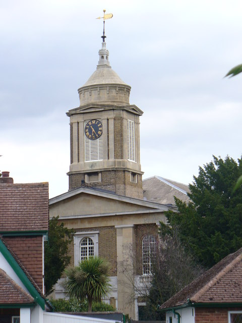 Egham Parish Church Tower St John's Church is a landmark at the east end of Egham High Street.